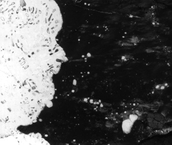 "Ghost myrmekite" also occurs in this photomicrograph of Rubidoux Mountain leucogranite. At the extinction position for microcline (black), clusters of quartz blebs (white) occur in faint traces of remnant plagioclase or as isolated oval islands in the microcline. The maximum sizes of the quartz blebs in the microcline match the maximum diameters of quartz vermicules in myrmekite (left side) where plagioclase is white and quartz vermicules are gray. Courtesy Dr. Lorence G. Collins.